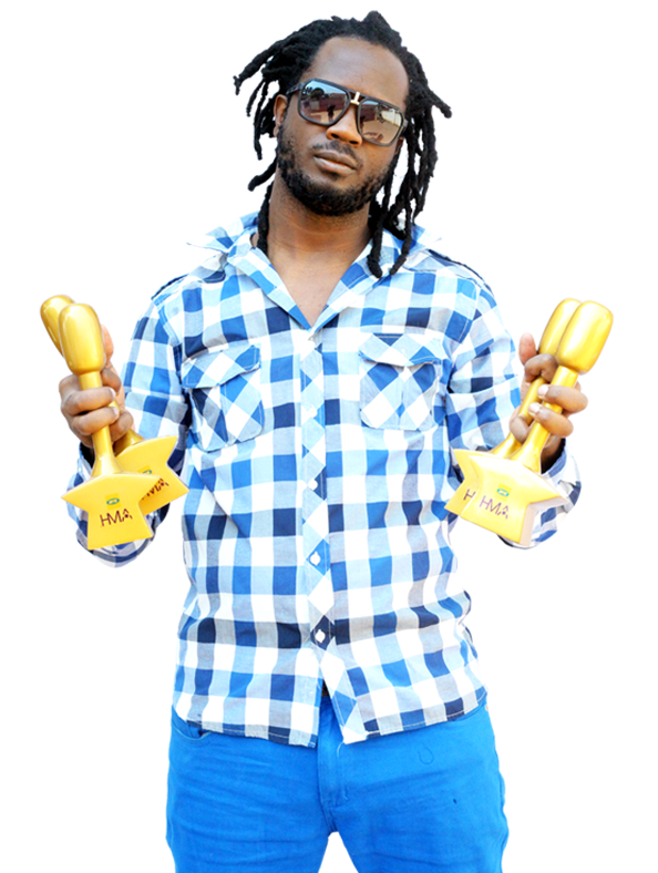 Bebe Cool Won six(6) awards at HiPipo Music Awards 2014 including Artist of The Year and Best Male Artist.